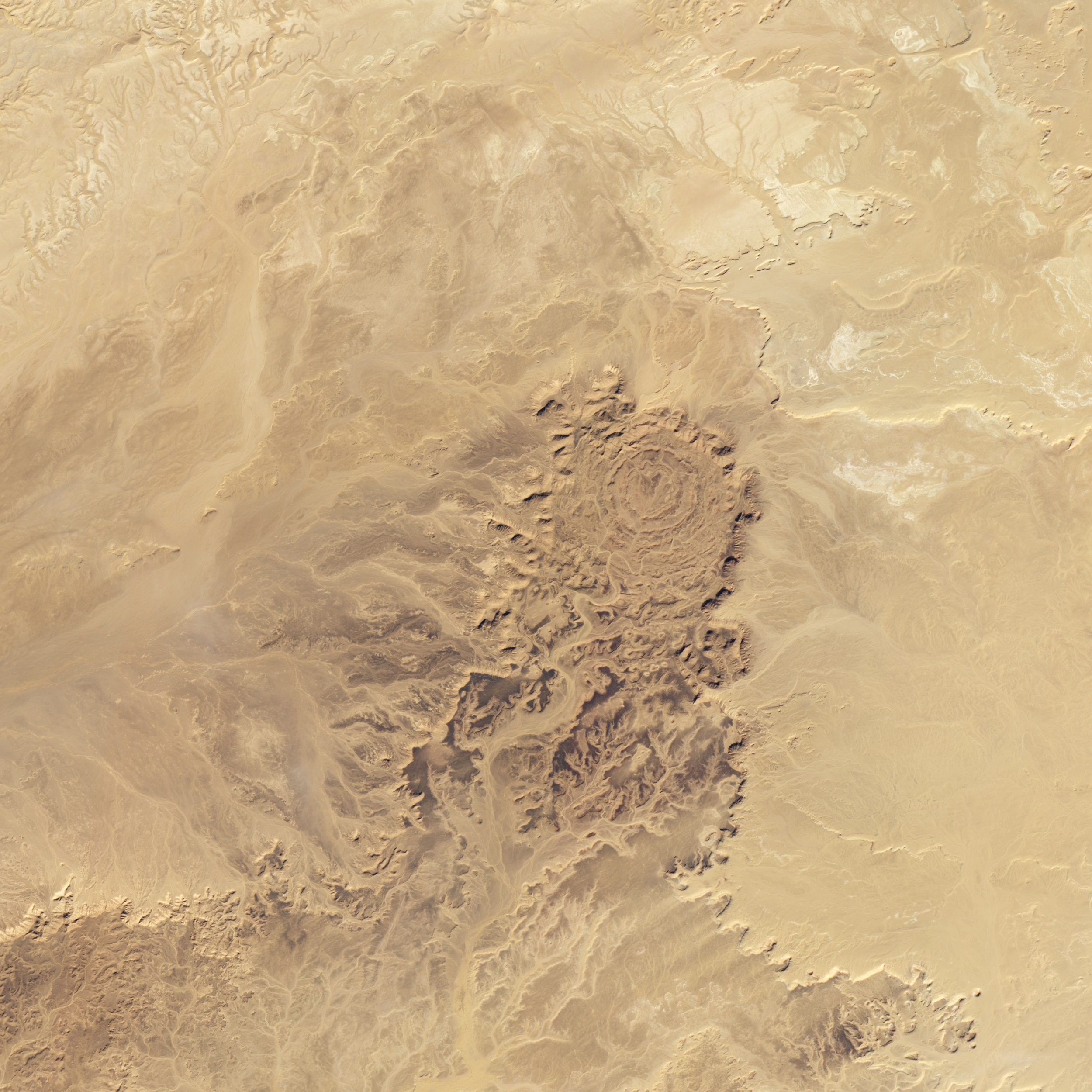 This is a 2011 image of Algeria's Tin Bider Crater from the NASA Earth Observatory that has been rotated to attempt to eliminate the crater illusion. Other information This is an original 2011 NASA Earth Observatory image of Algeria's Tin Bider Crater that has been rotated by the uploader in an attempt to eliminate the crater illusion.